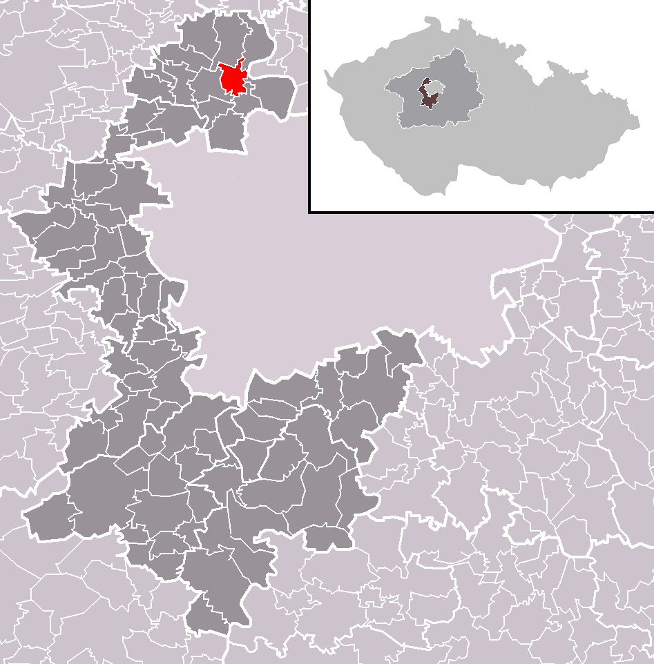 Location of Úholičky municipality within Prague-West District and administrative area of Černošice as a Municipality with Extended Competence.